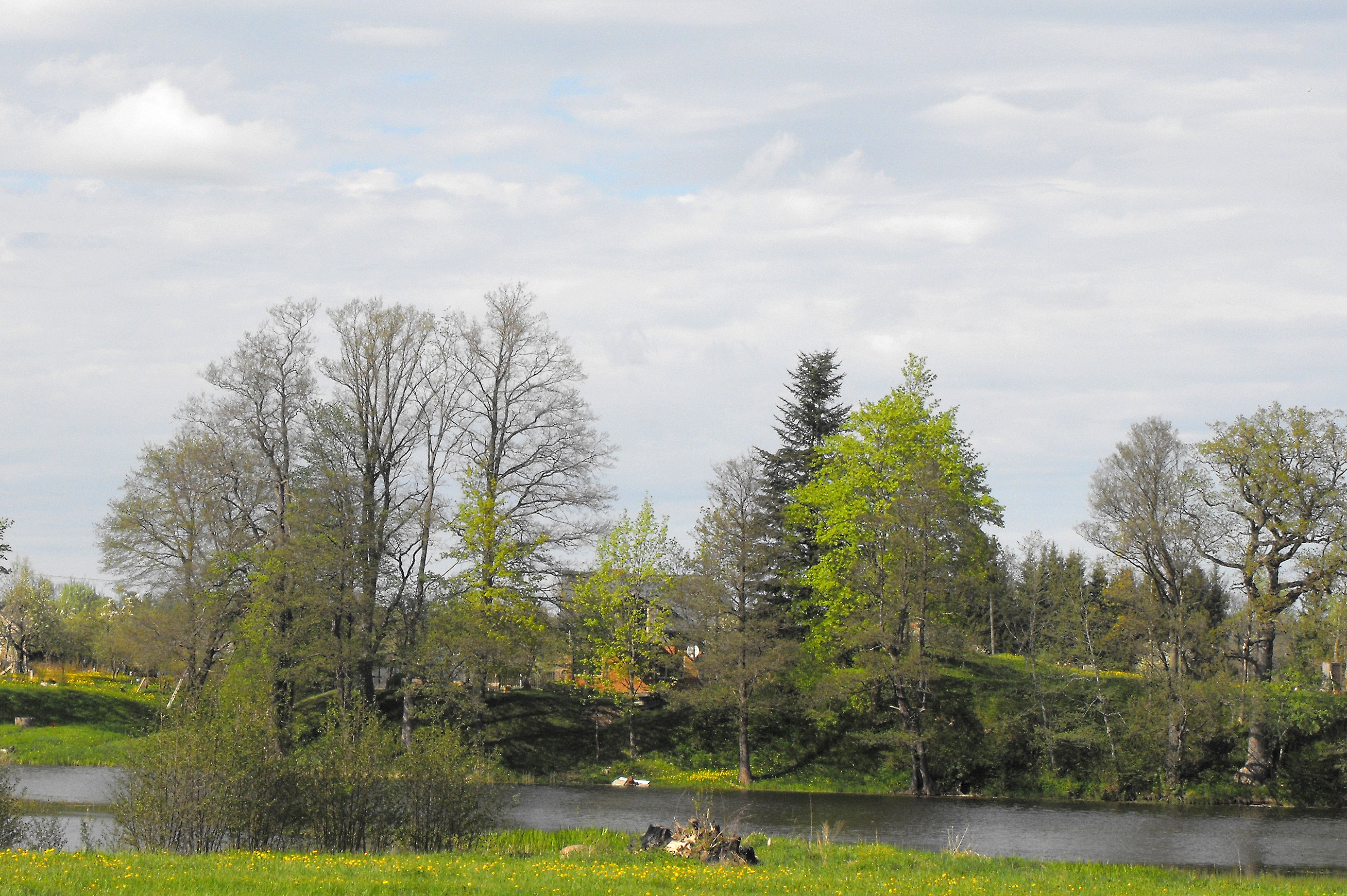 Dundaga hillfort, Latvia